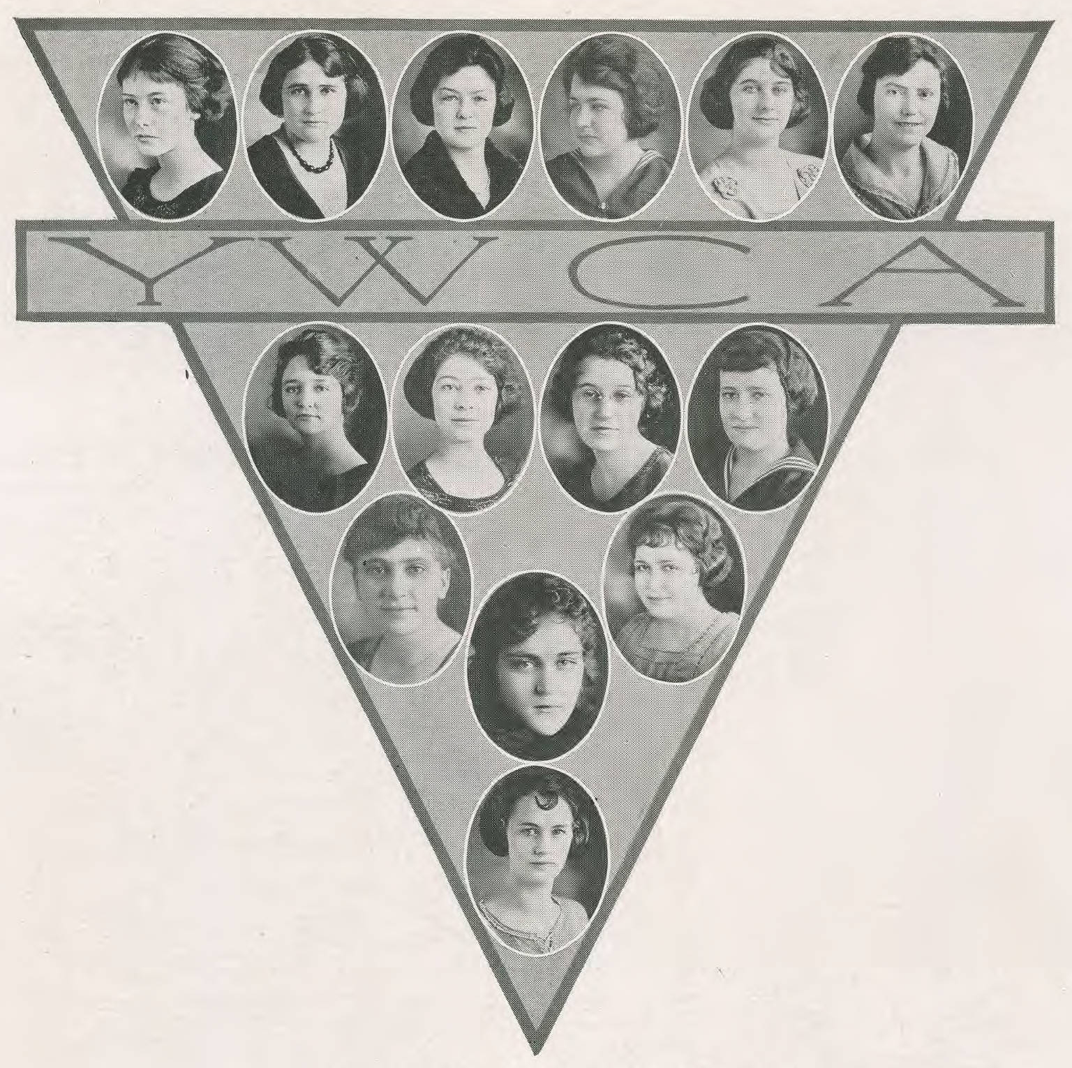 The 1922 Y.W.C.A. Cabinet at East Texas State Normal College.